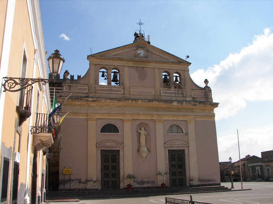 Front site of the Holy Cross Church in Santa Maria di Licodia, Sicily